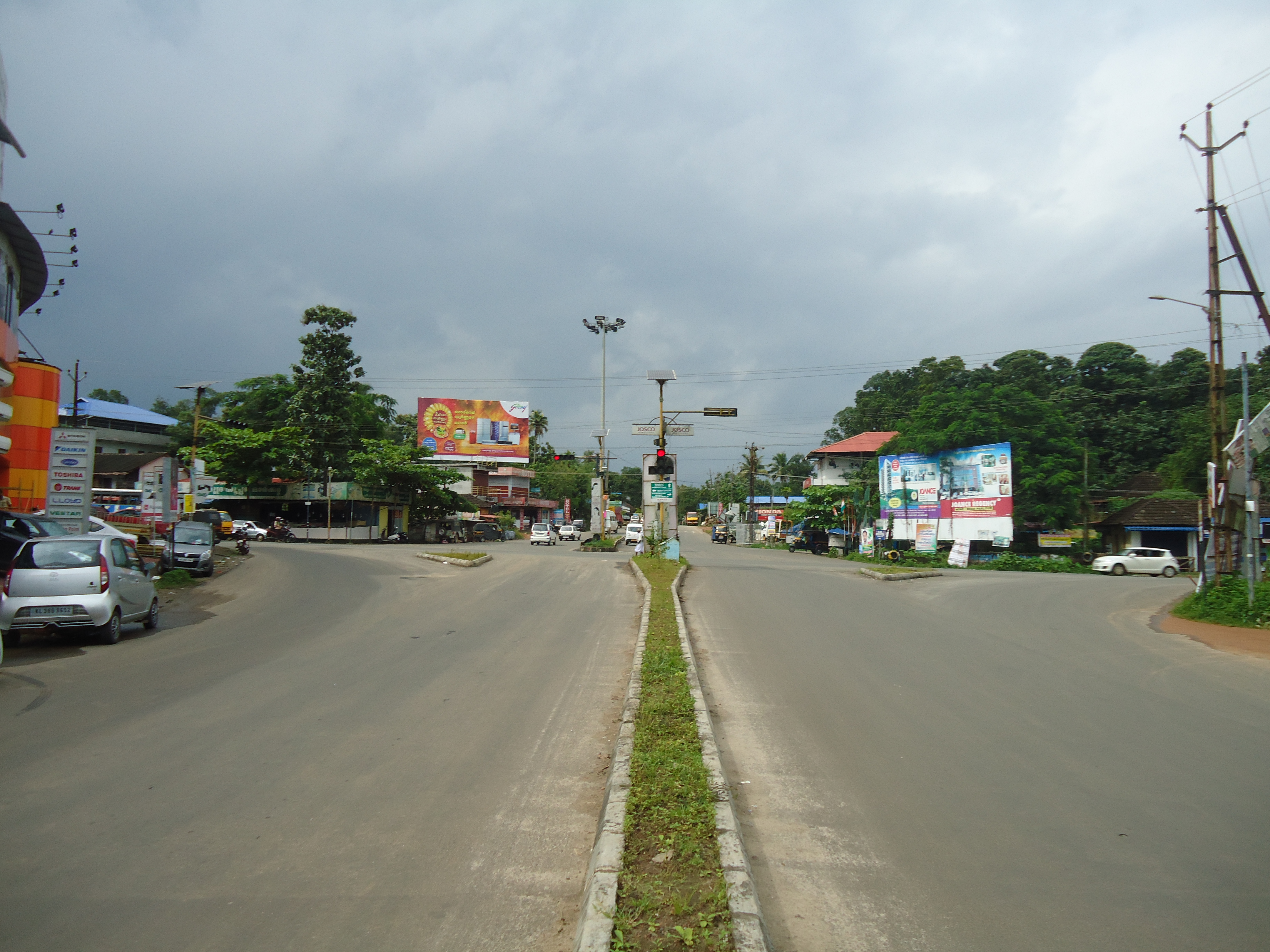 Vengalloor is a small Junction Near Thodupuzha town. Thodupuzha Ring road is passing through this junction.